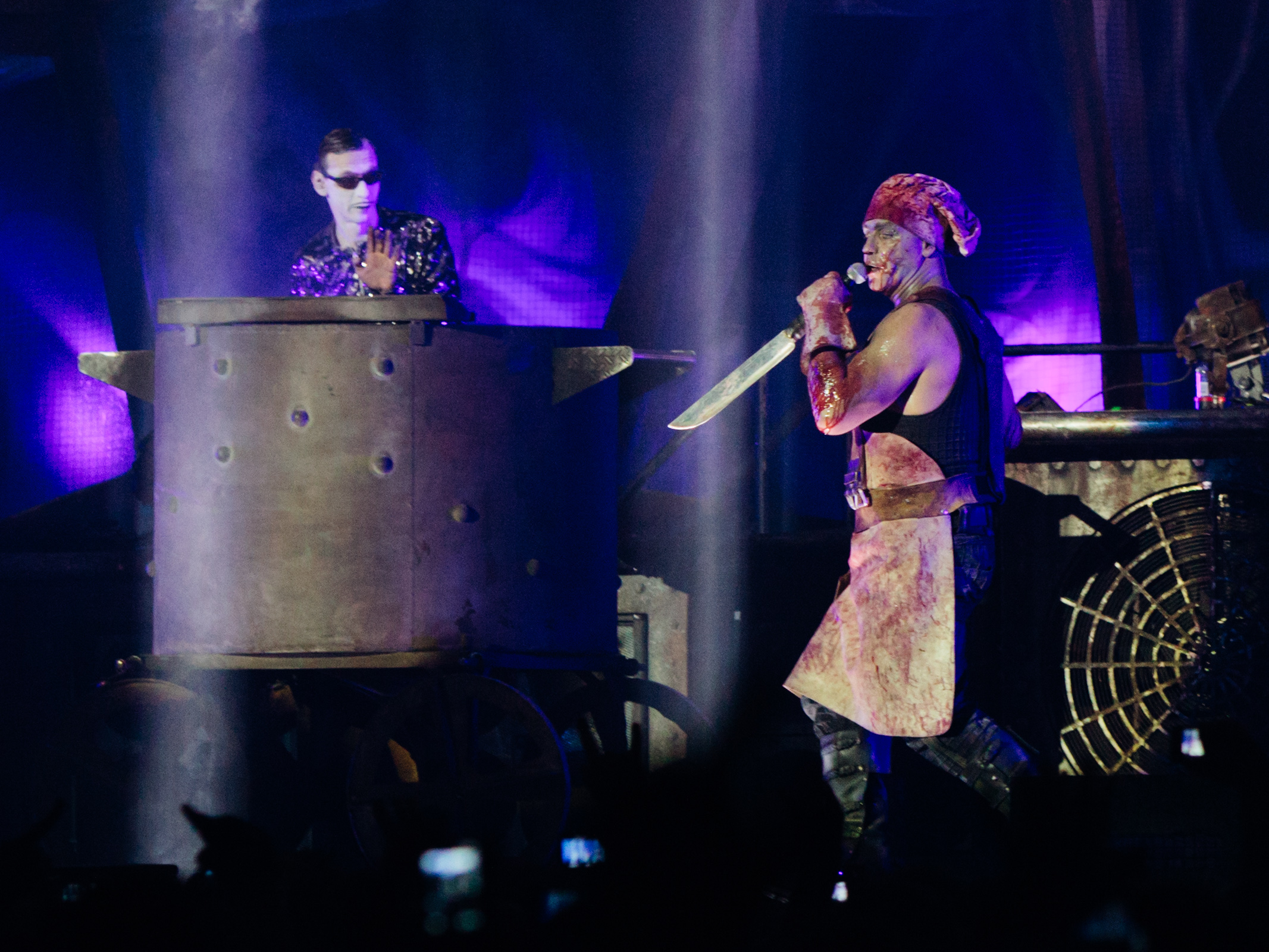 Rammstein performing "Mein Teil" live in London, 24 February 2012